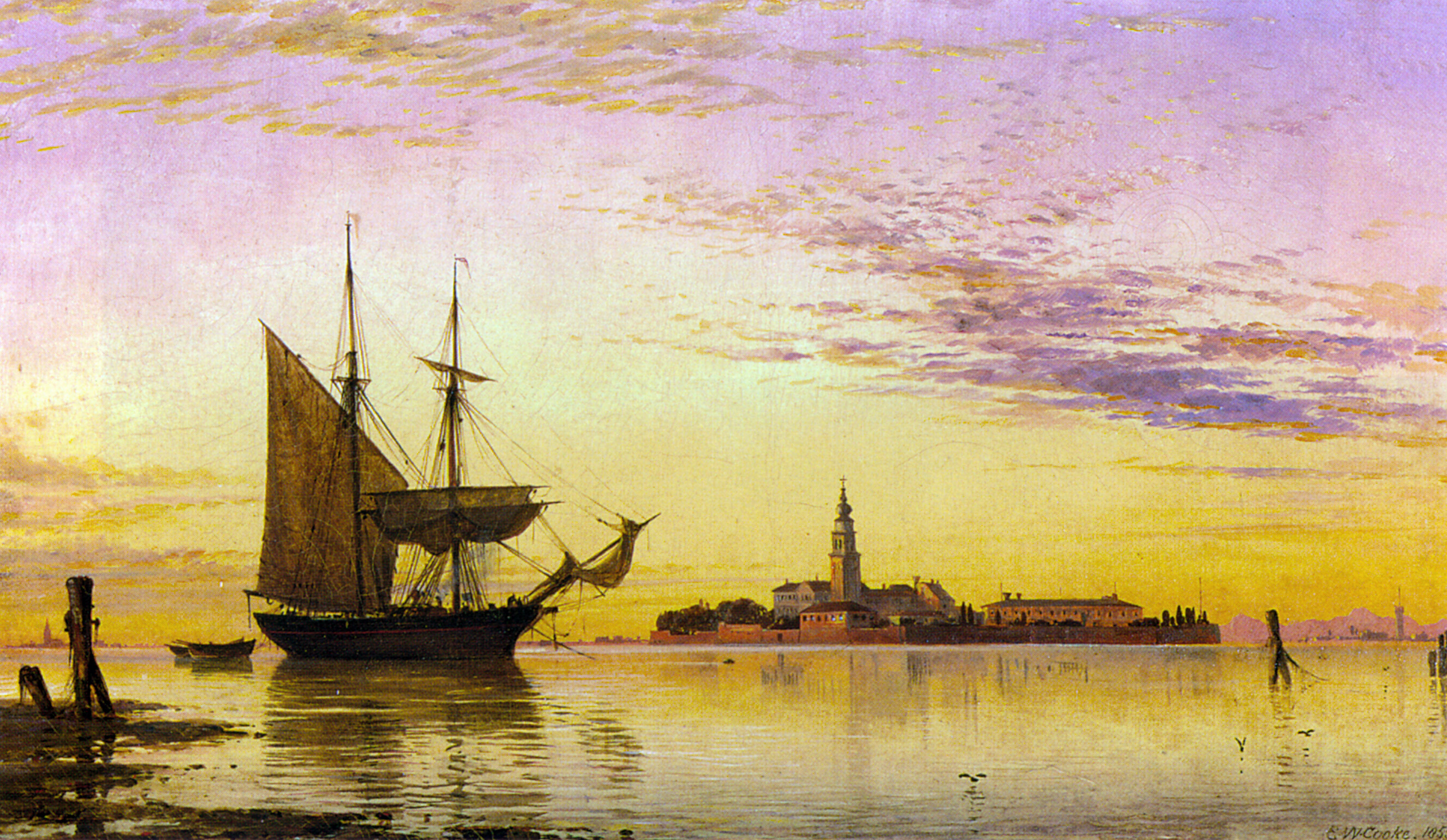 The Armenian Convent, Venice